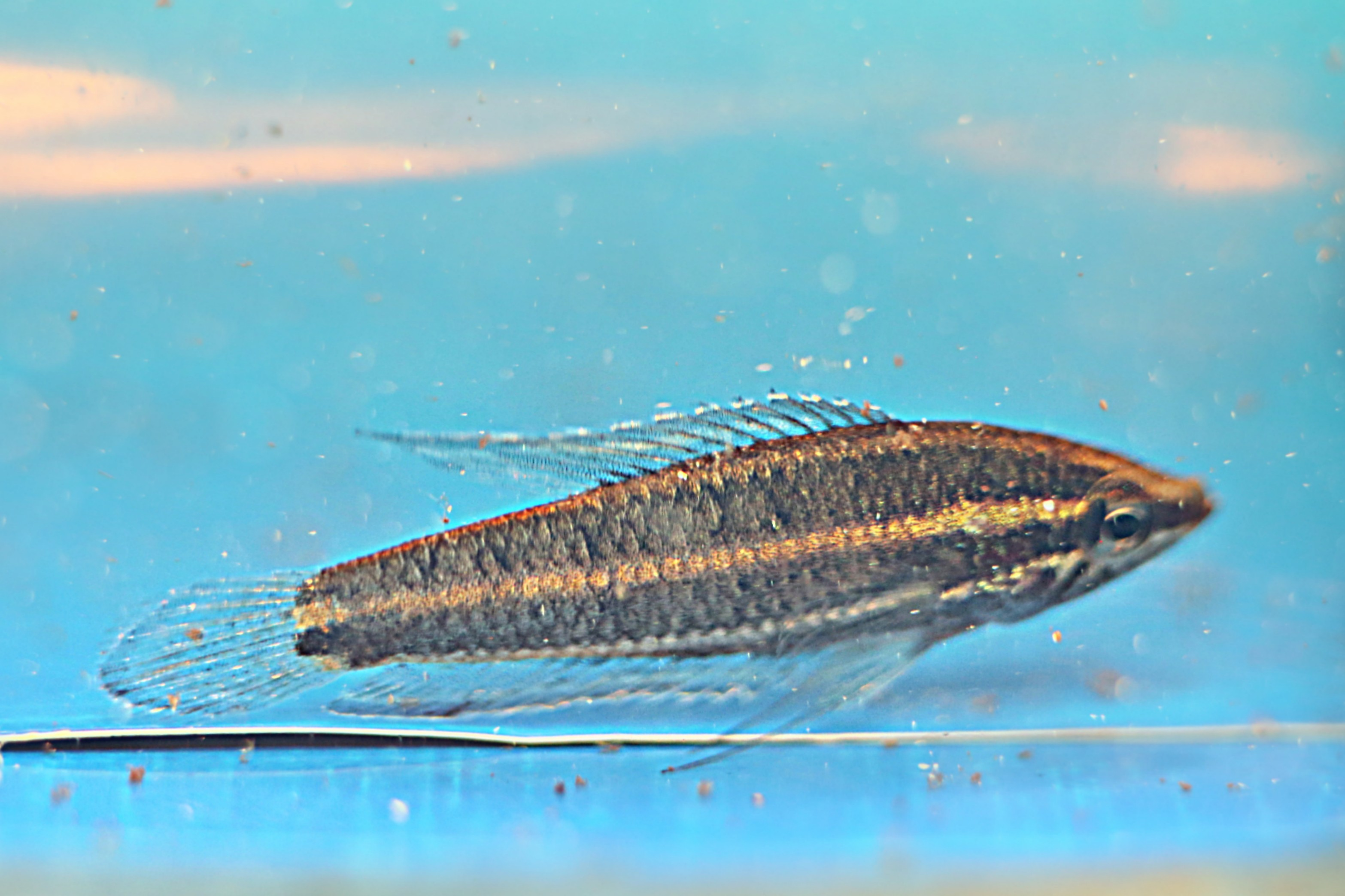 Parosphromenus harveyi from Tanjong Malim